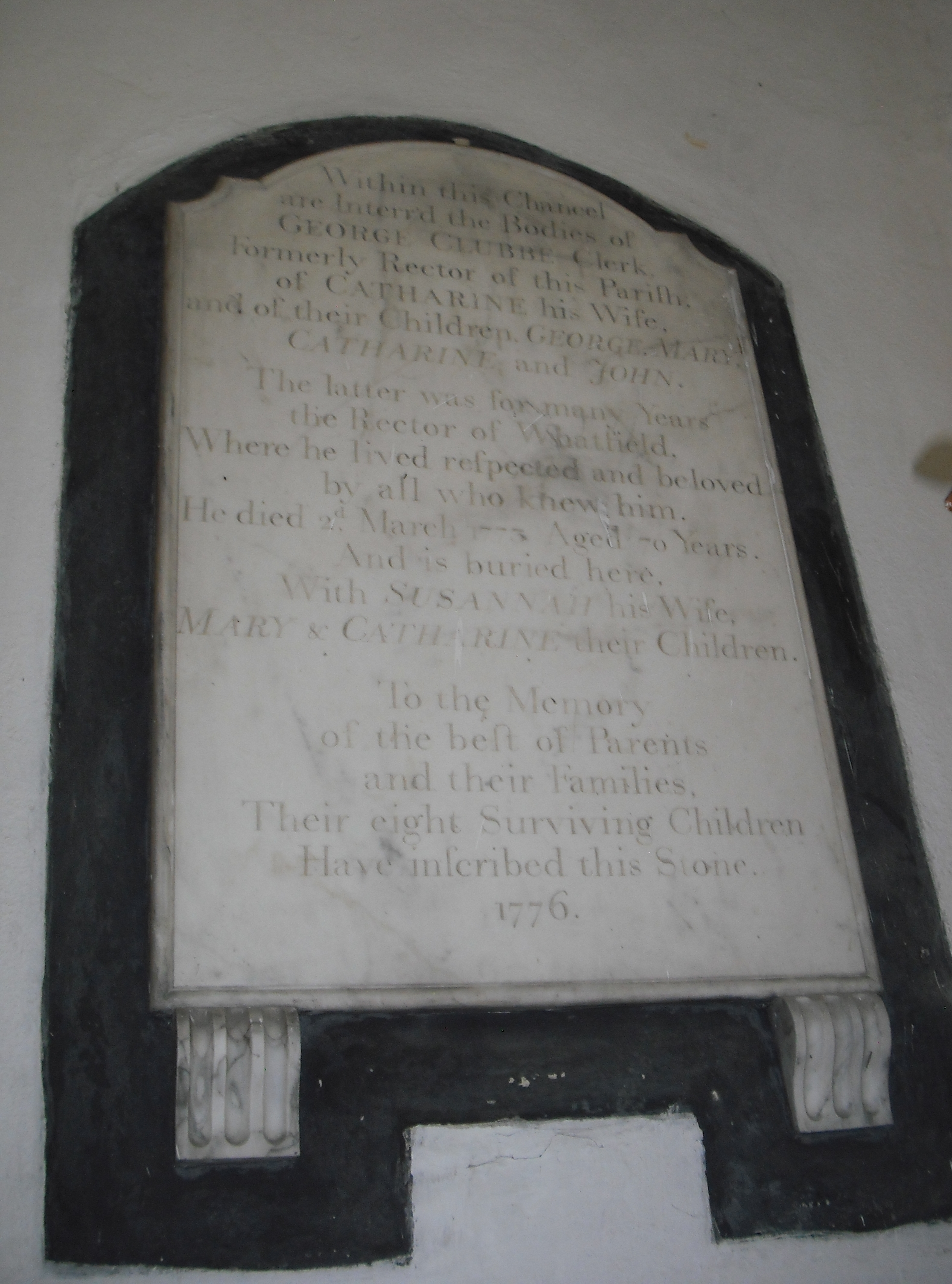 Memorial plaque to the family of Rev. George Clubbe, Rector of Whatfield, Suffolk including his son John Clubbe in St Margaret's church, Whatfield.